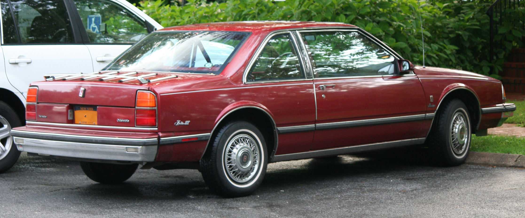 1986 Oldsmobile Delta 88 Royale Brougham Coupé